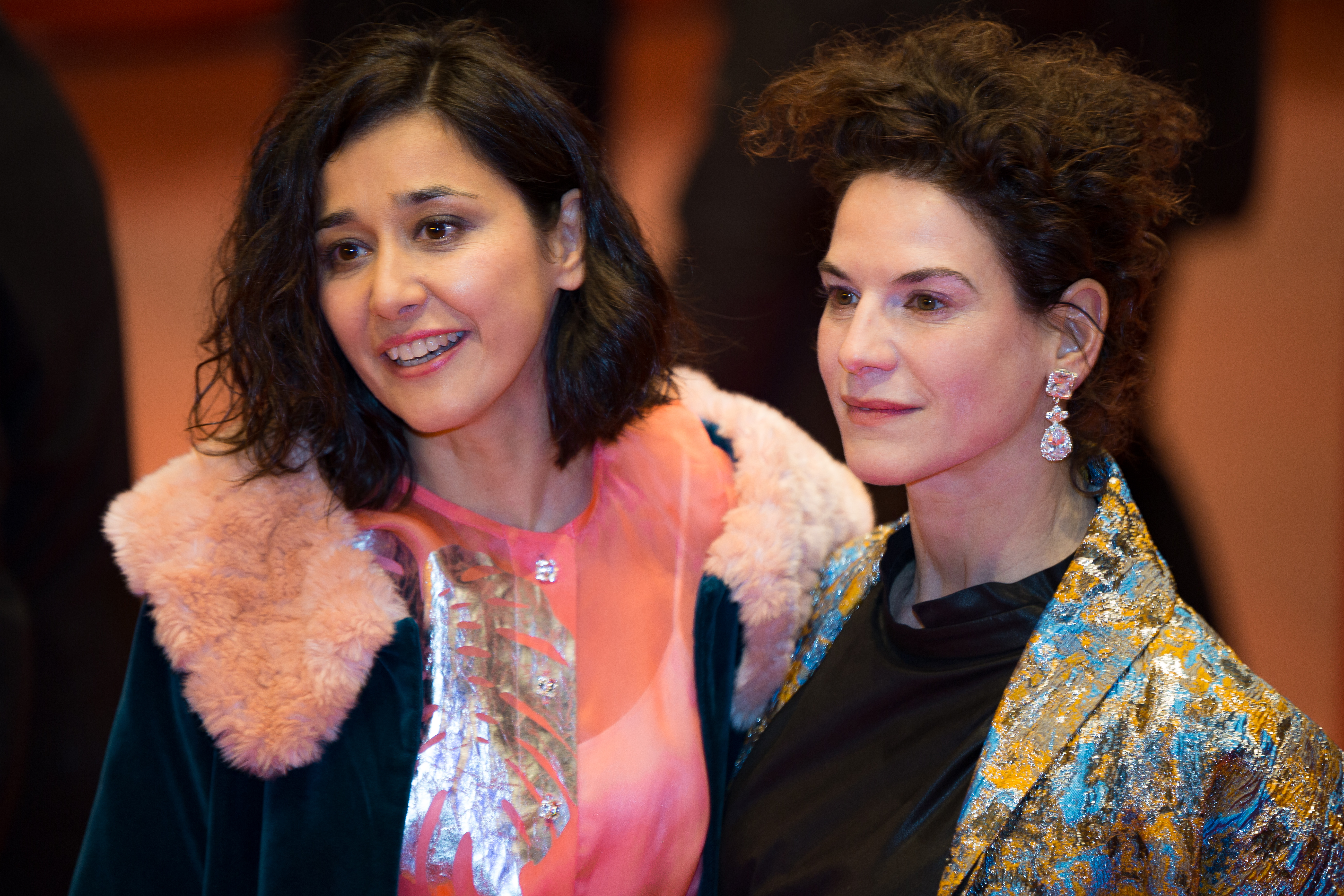 Dorka Gryllus and Bibiana Beglau on the red carpet of the Berlinale 2017 opening film